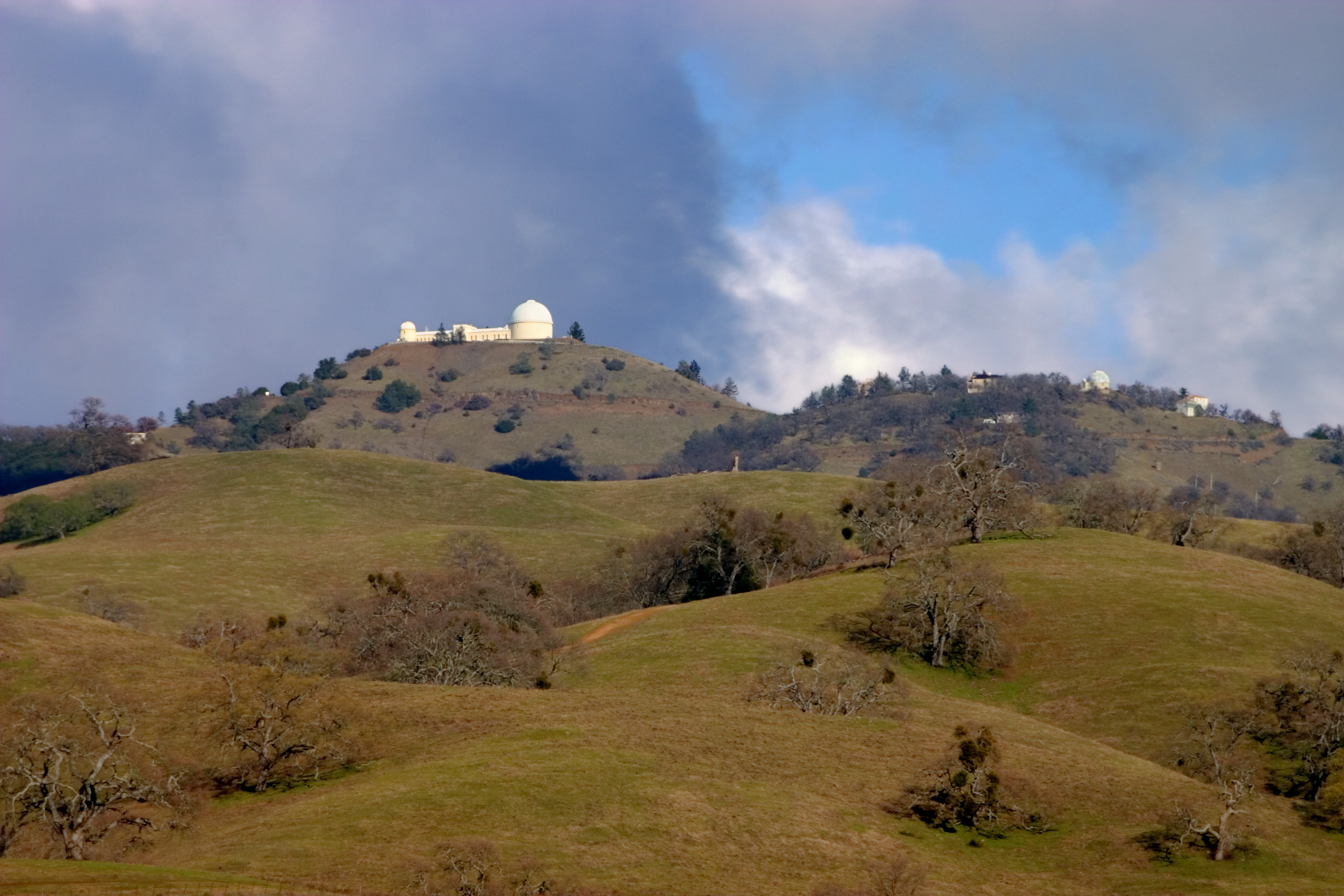 A picture of Lick Observatory on Mount Hamilton near San Jose, California, taken from Grant Ranch. Photo by Sean O'Flaherty aka Seano1